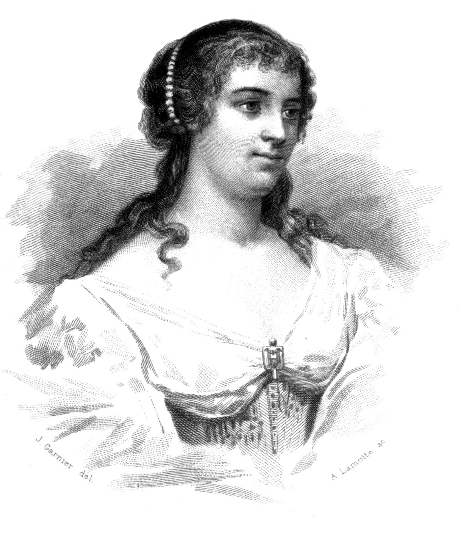 Madame de Lafayette